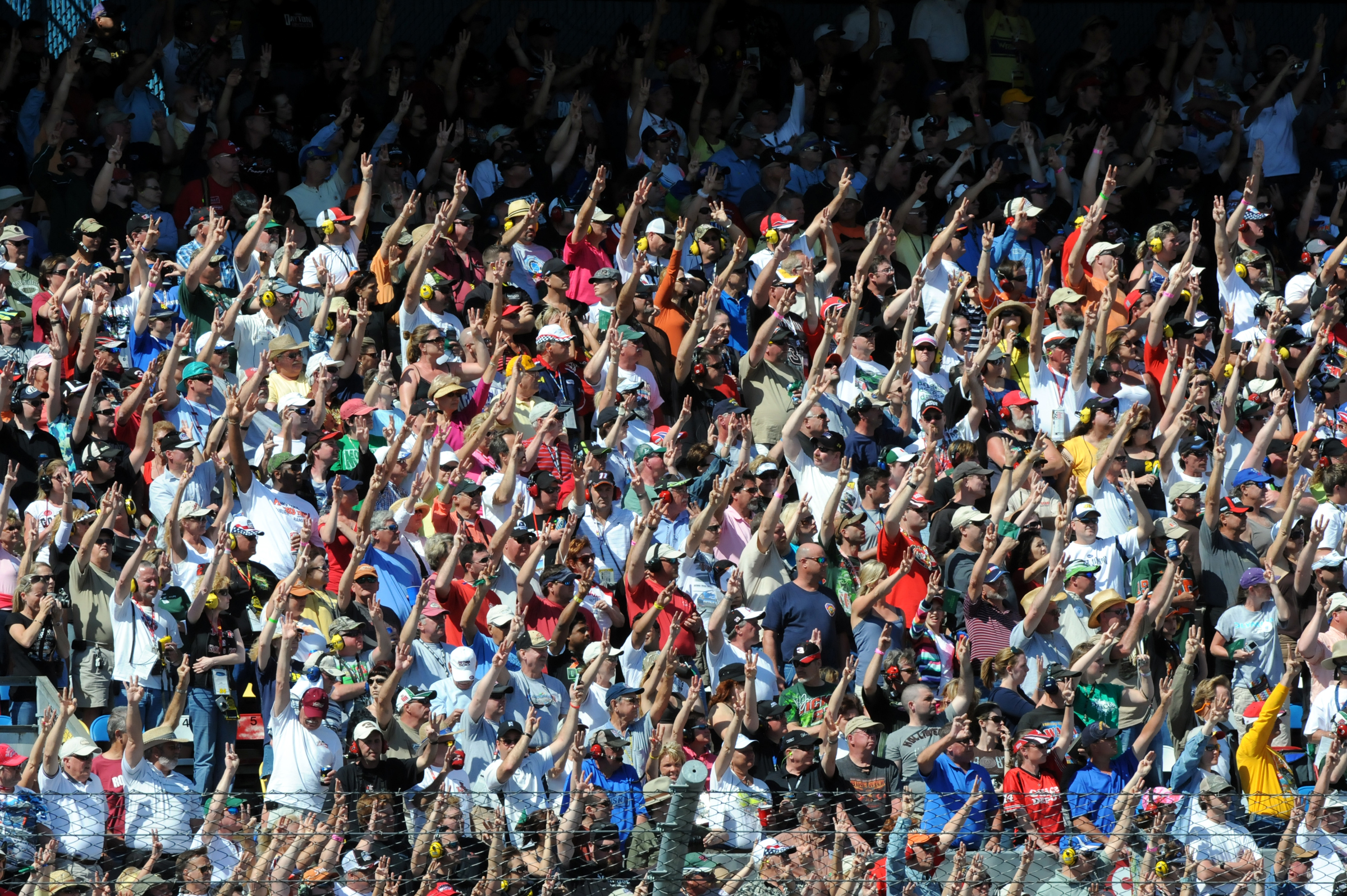 NASCAR fans hoist three fingers into the air during the third lap of the 53rd running of the Daytona 500 on Sunday to honor the late Dale Earnhardt, who was killed in a crash here 10 years ago while driving the No. 3 Goodwrench Chevrolet. U.S. Army photo by Tim Hipps, FMWRC Public Affairs